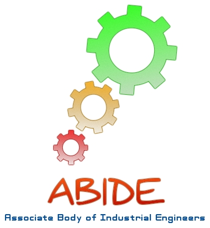 the symbol for ABIDE, the student group of IEM dept in DR.AIT, bangalore, India